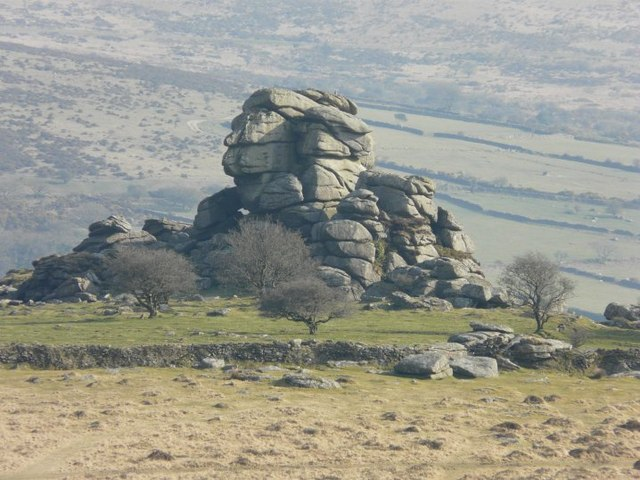 Vixen Tor Taken from the car park near Merrivale on the Two Bridges to Tavistock road with a zoom magnification.